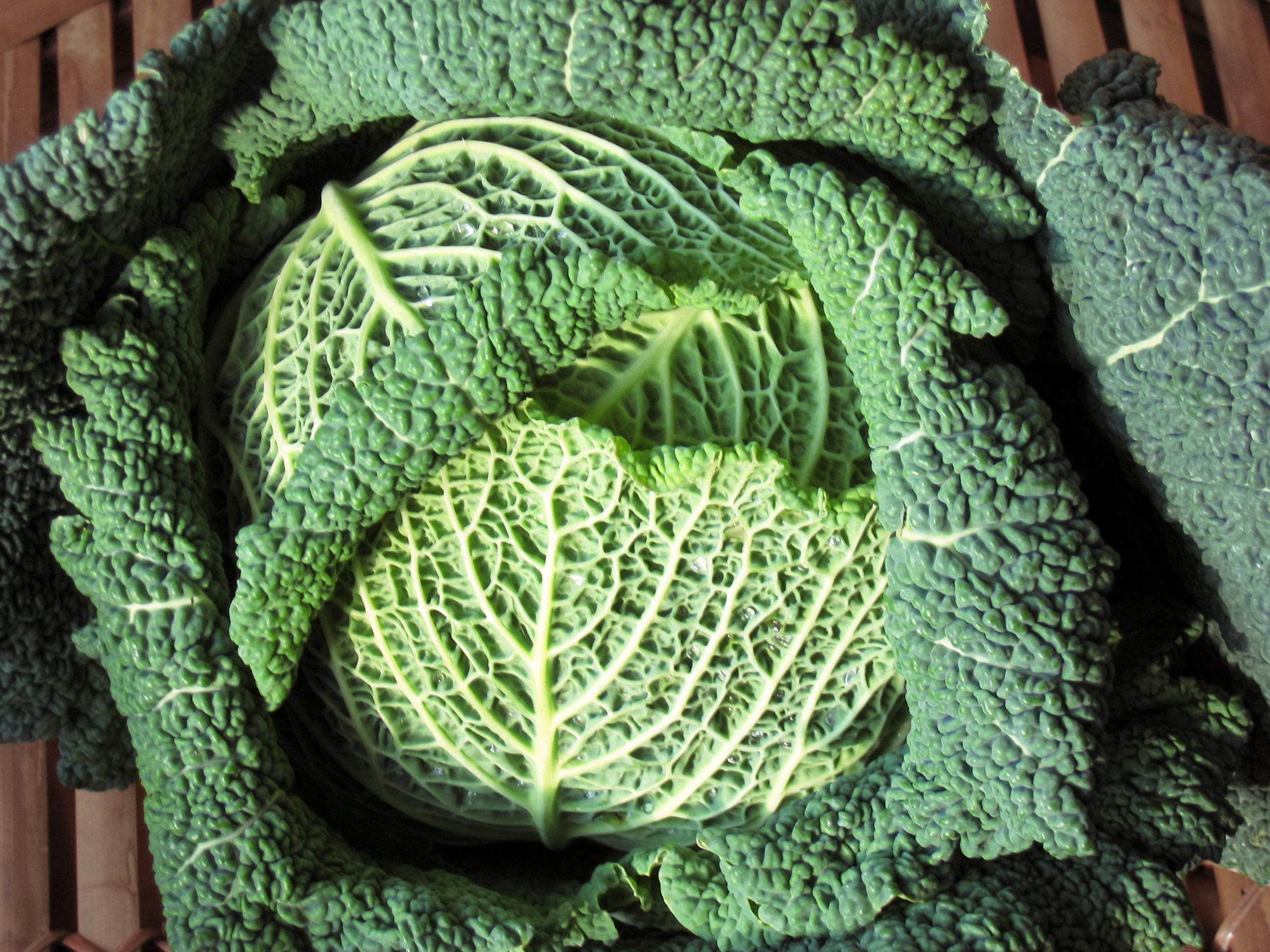 Good example of an organic savoy cabbage, and an excellent illustration of its form and leaf structure. If it's not like this, it's not savoy. And if it isn't savoy, it's not gonna taste like savoy. :)